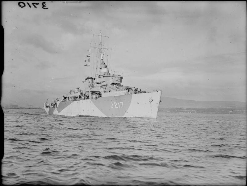 British minesweeper HMS LOYALTY underway, coastal waters